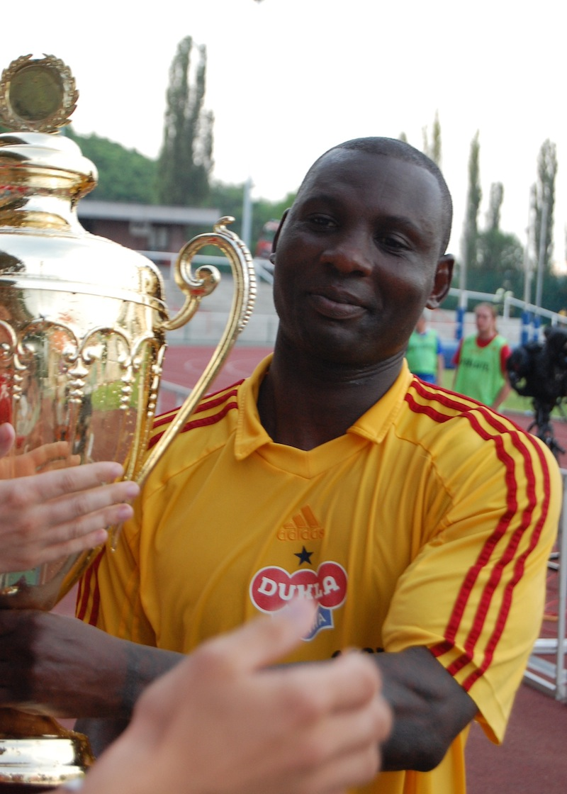 Dani Chigou (Dukla Praha) with the Czech 2. Liga cup